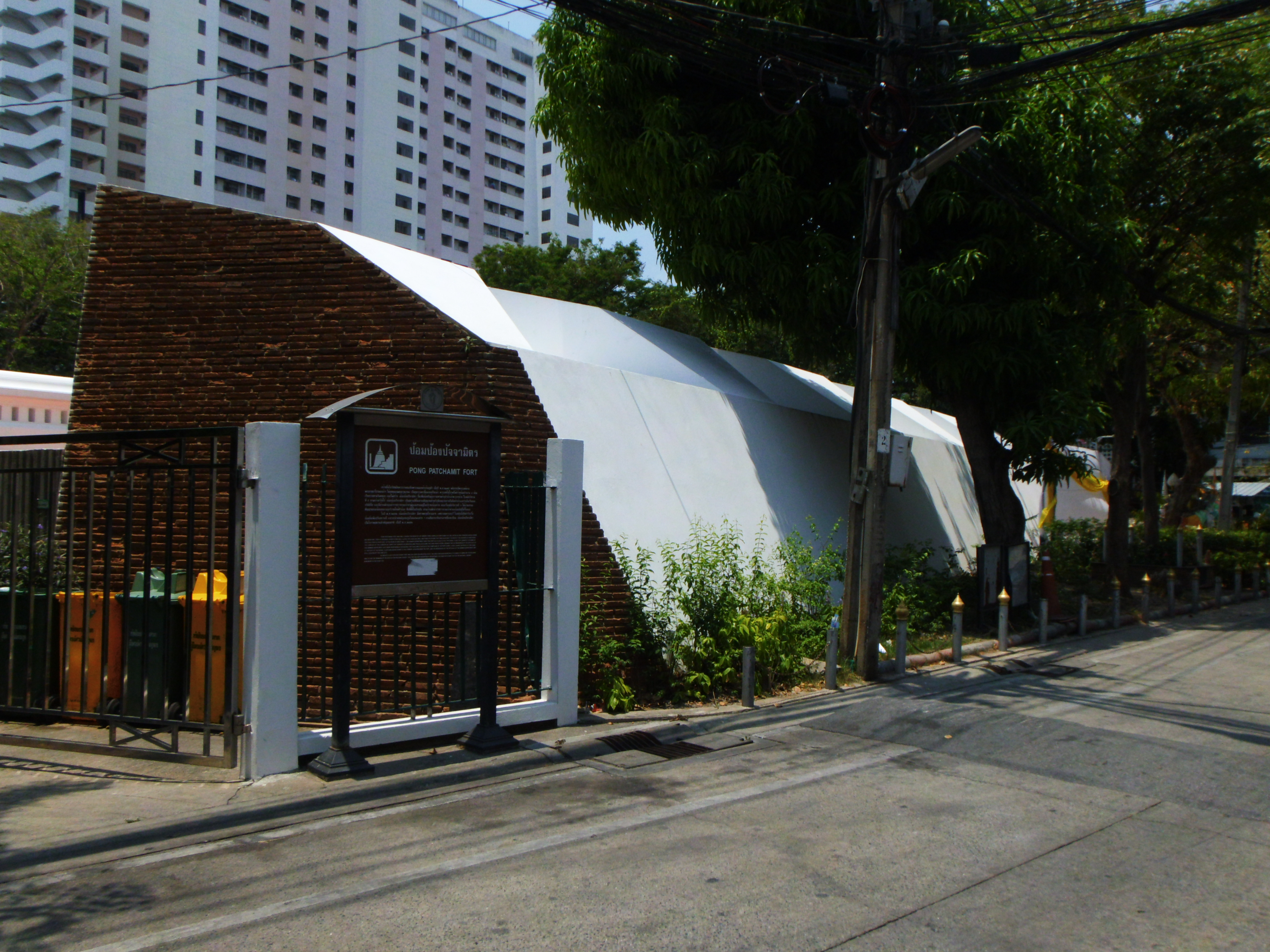 ป้อมป้องปัจจามิตร